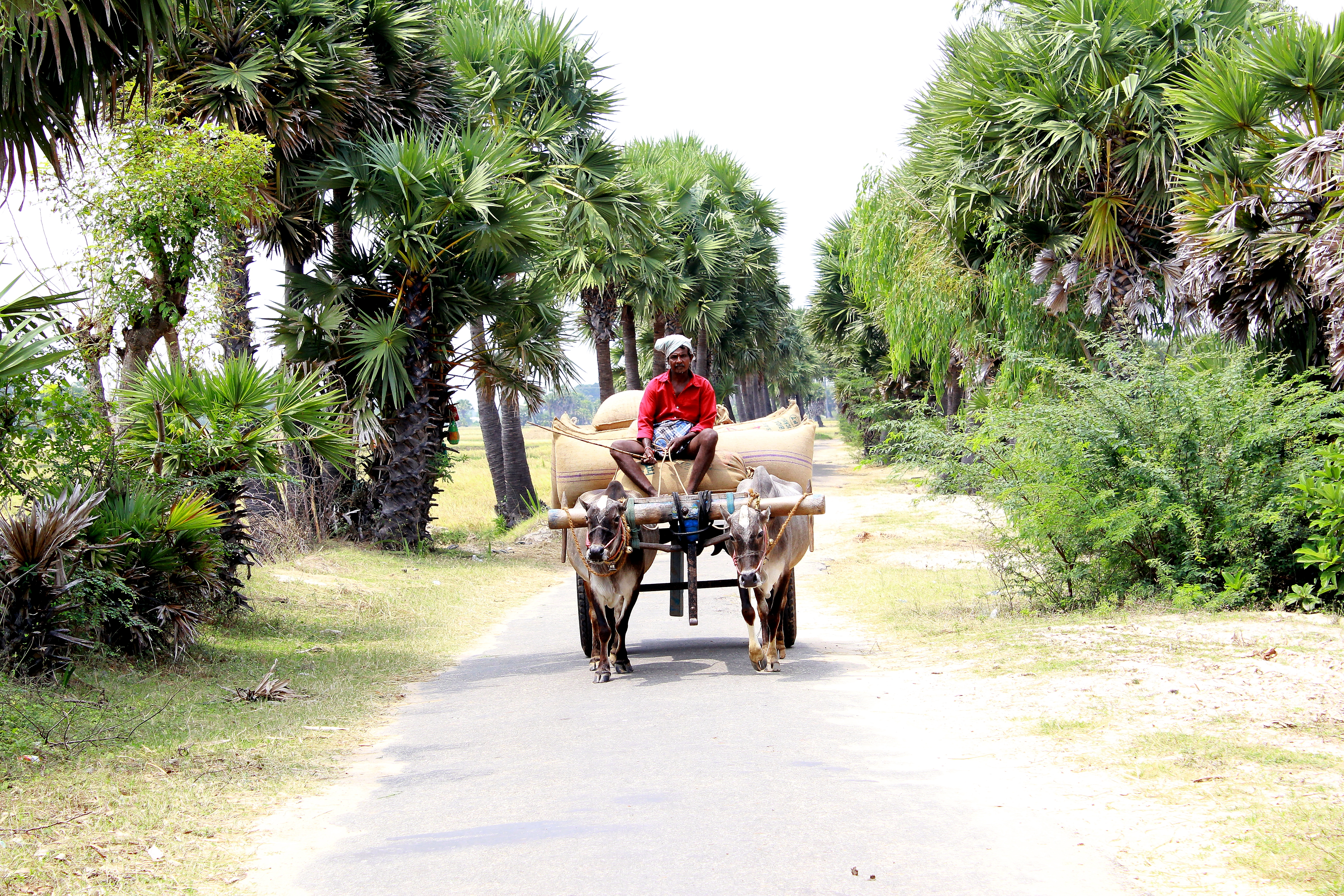 A bullock cart riding in his vehicle